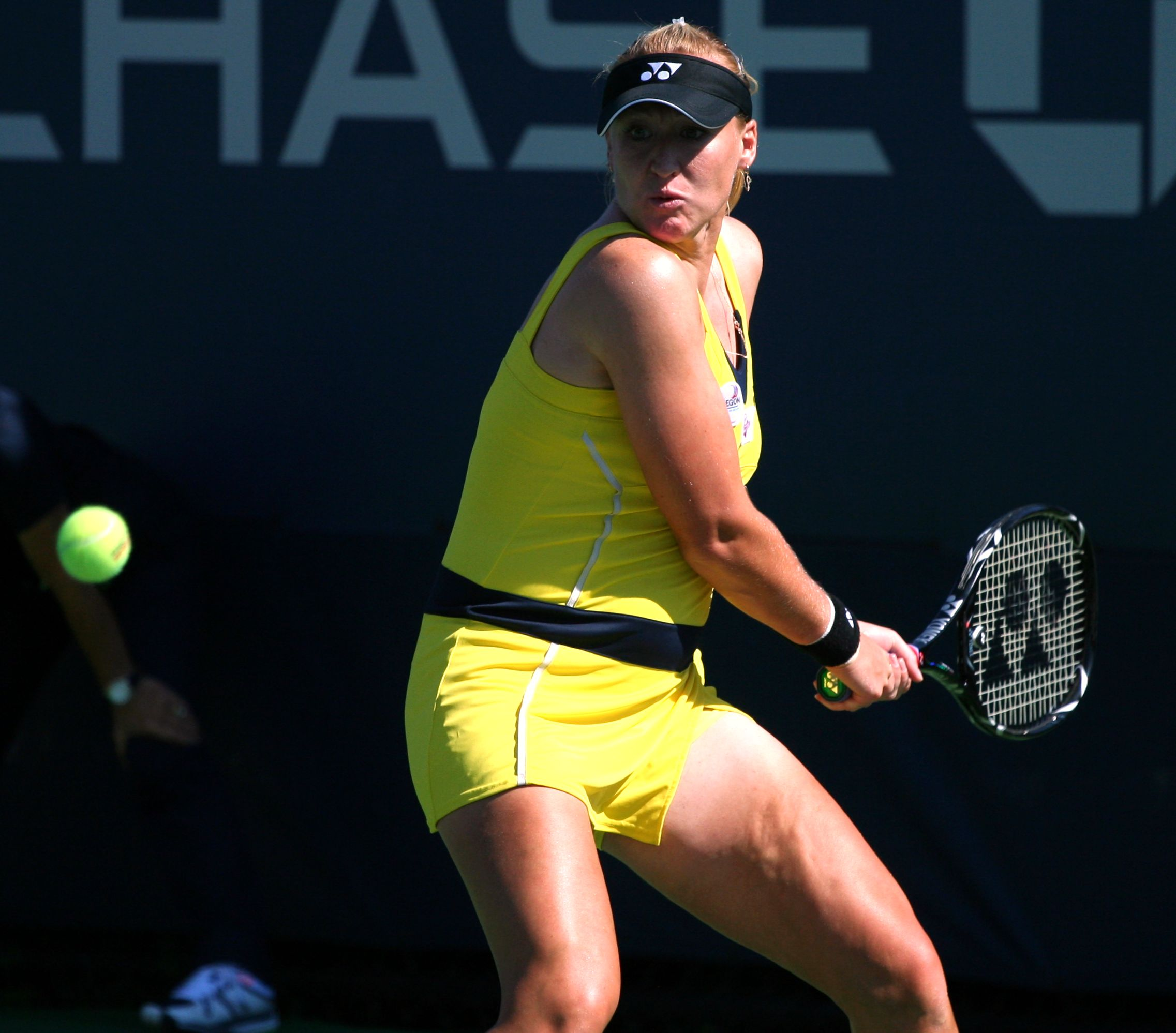 U.S. Open Tuesday, Aug. 30, 2011